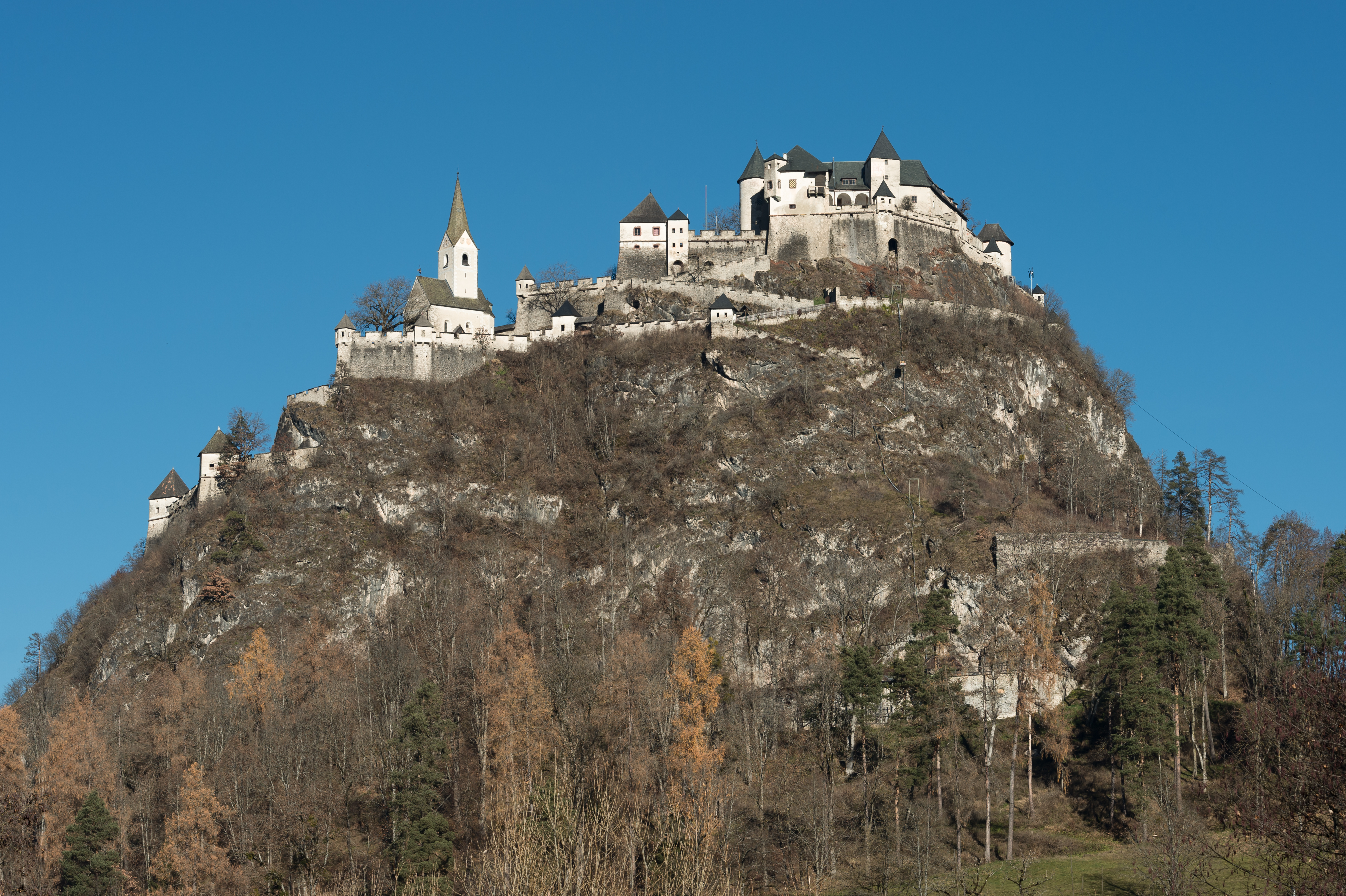 Castle Hochosterwitz, municipality Sankt Georgen am Laengsee, district Sankt Veit an der Glan, Carinthia, Austria, EU